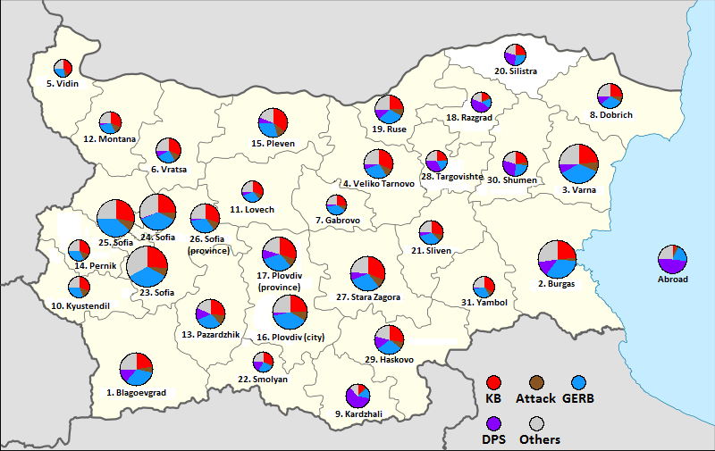 Bulgarian parliamentary election, 2009: vote distribution by constituency